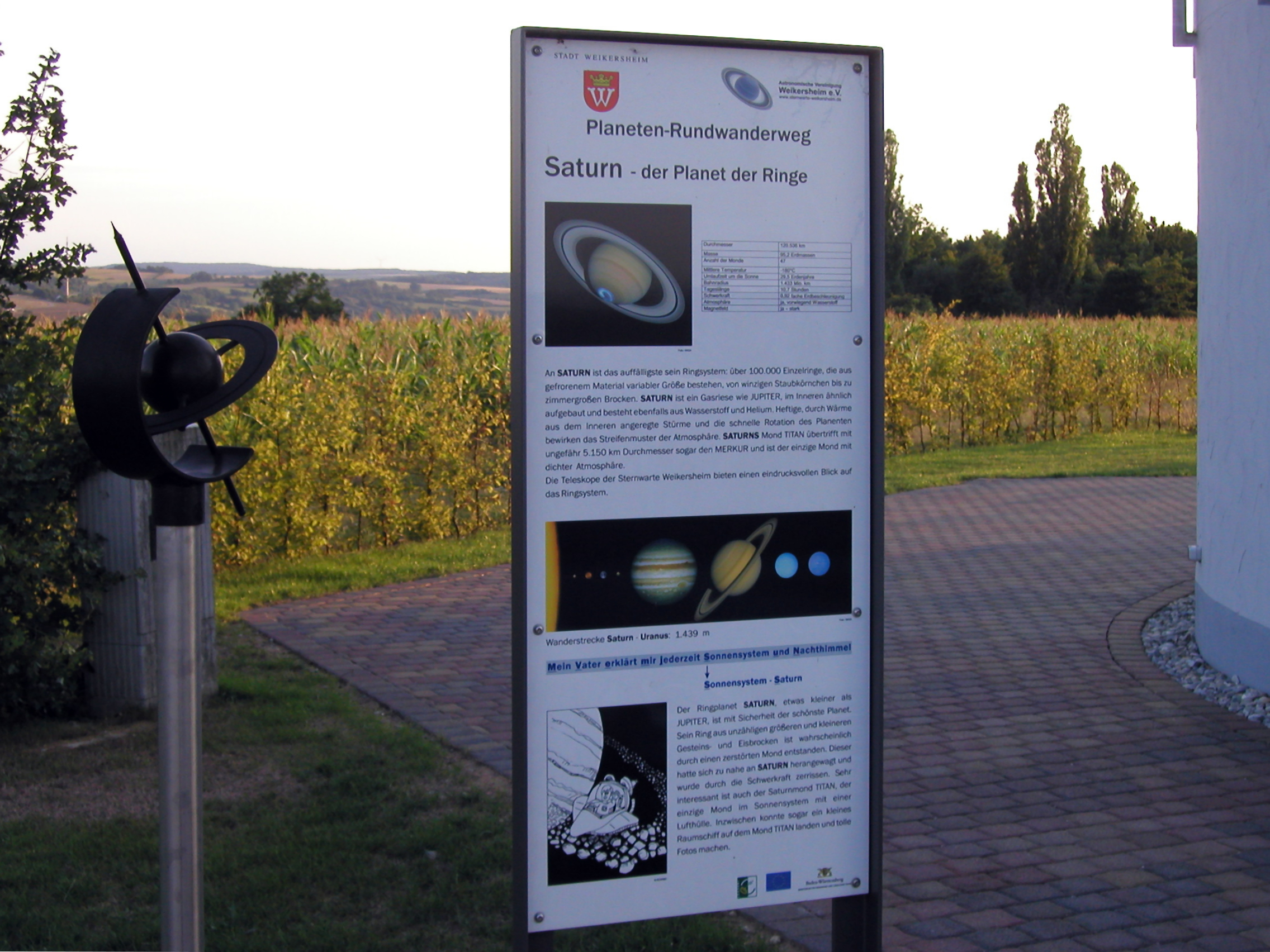 Model and description of planet saturn nearby the observatory in Weikersheim